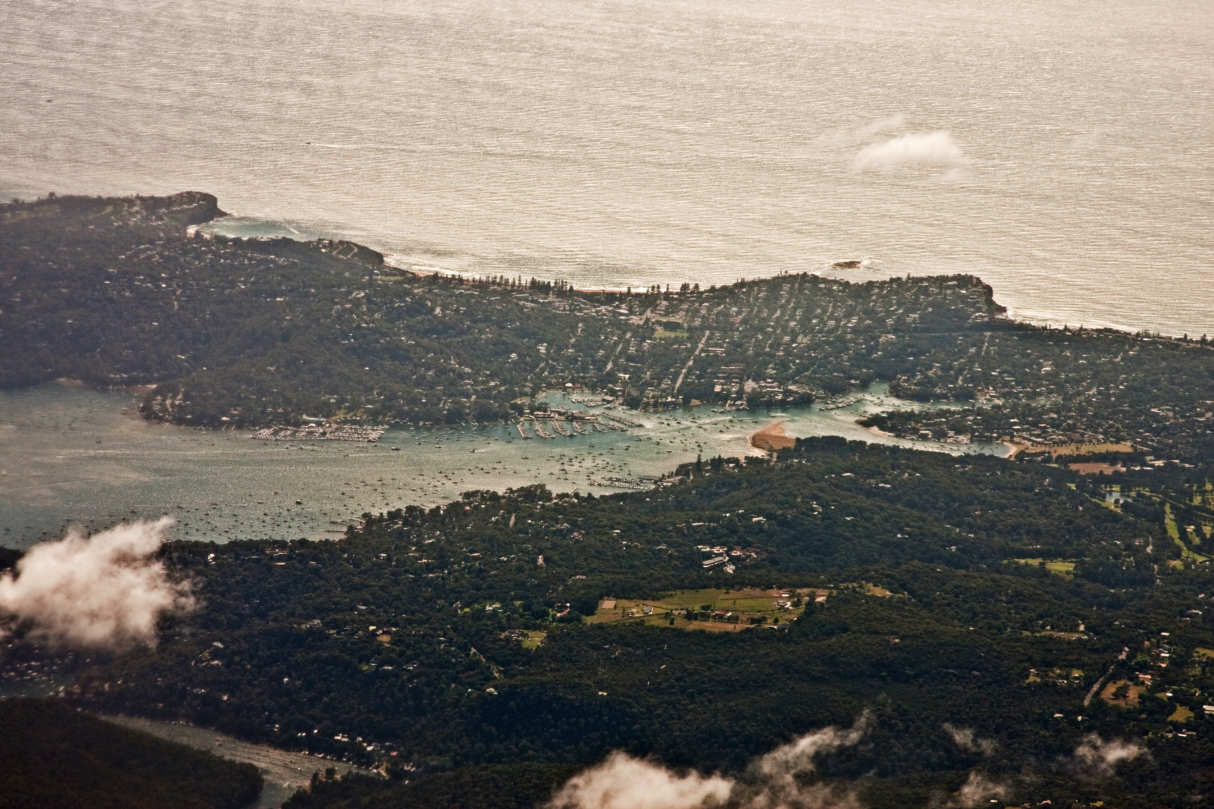 Newport suburb overview, Sydney, Australia.